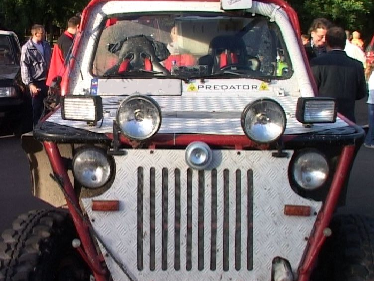 Off-road